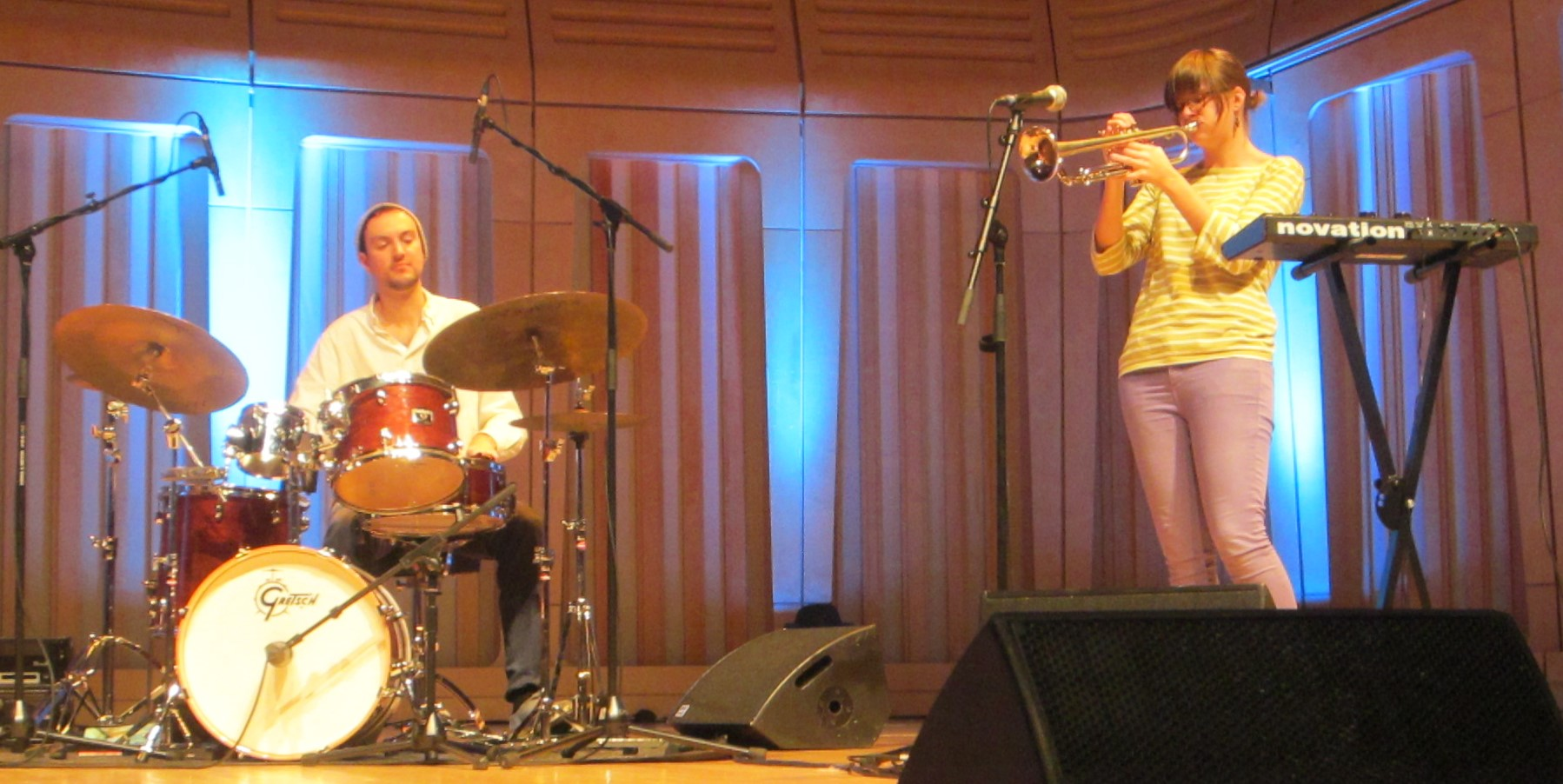 British jazz quartet Dinosaur live on stage at The Dora Stoutzker Hall, Royal Welsh College of Music & Drama in Cardiff in October 2016. Corrie Dick and Laura Jurd shown.